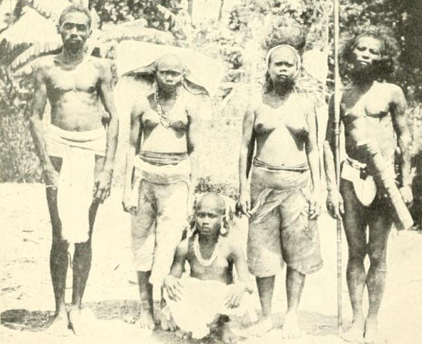 Group of Bataks, Paragua (1913) (note: Paragua = Palawan)